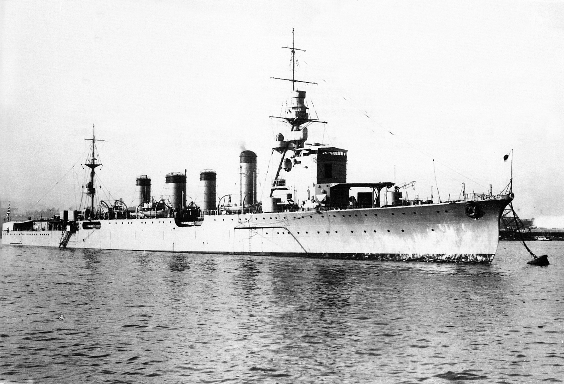 Japanese cruiser Naka prior to commissioning at Yokohama, November 1925